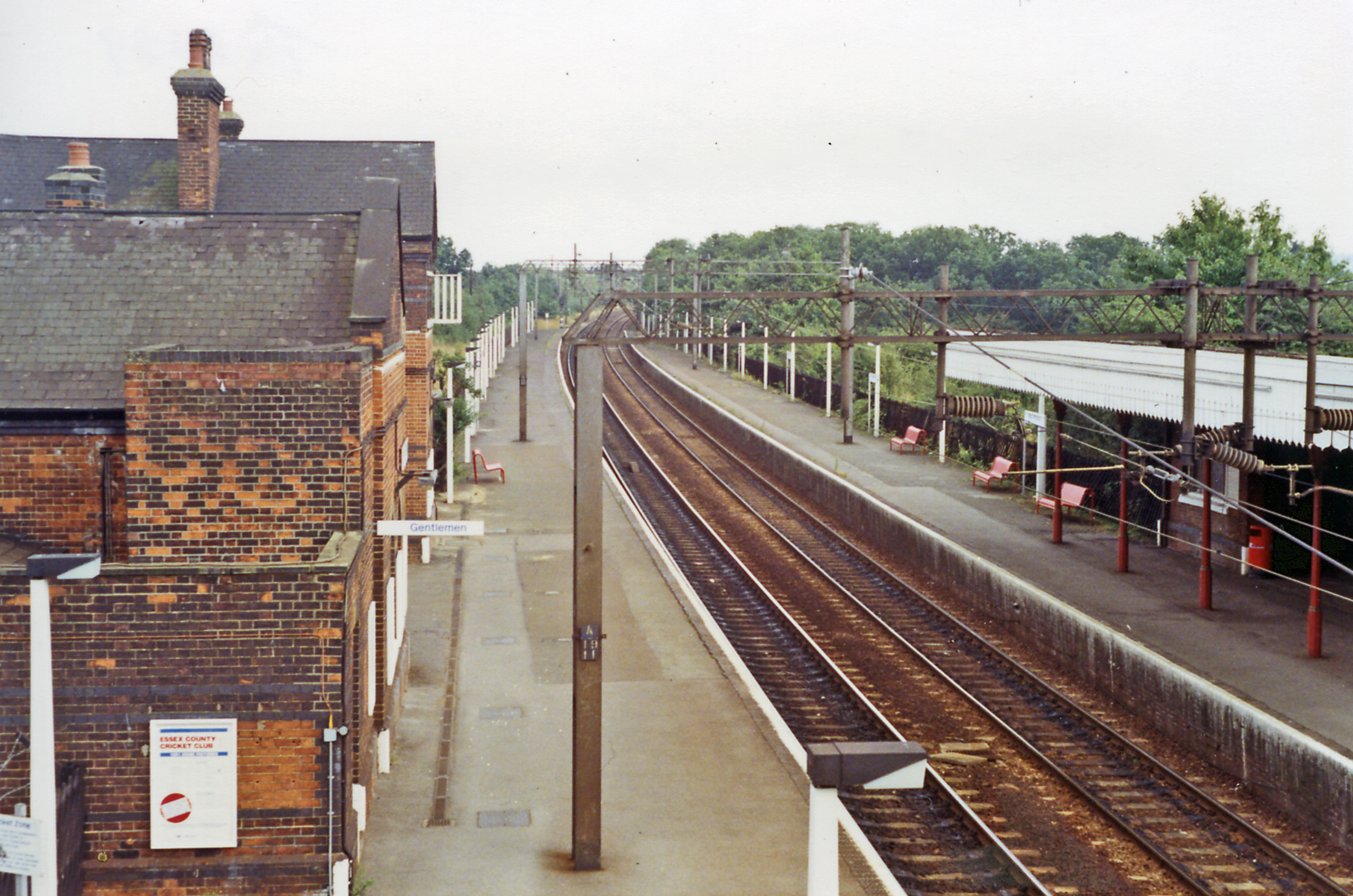 West Horndon station, 1991. View eastward, towards Shoeburyness: ex-Midland (LT&S) Fenchurch Street - Upminster - Southend - Shoeburyness line, electrified 1962. The station was named 'East Hordon' until 1/5/49!